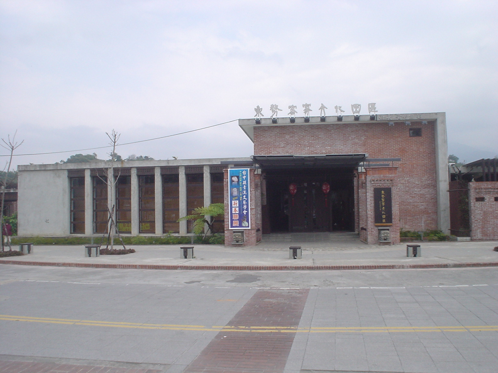 This is the Dongshih Hakka Culture Area converted from the old Dongshih Railroad Station in Taichung County, Taiwan. Picture taken February 20, 2007. 東勢客家文化園區 臺灣臺中縣東勢鎮